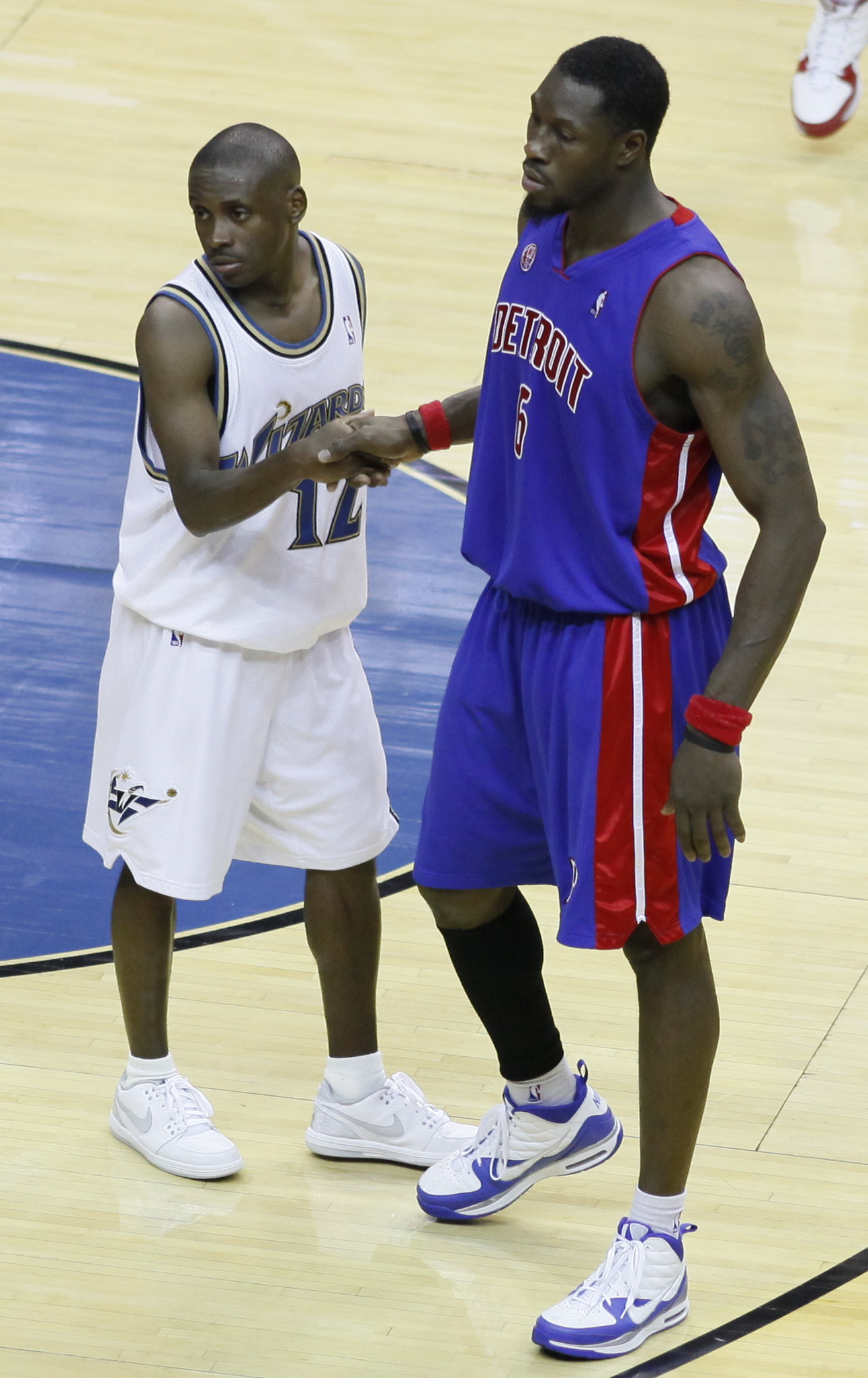 Ben Wallace playing with the Detroit Pistons